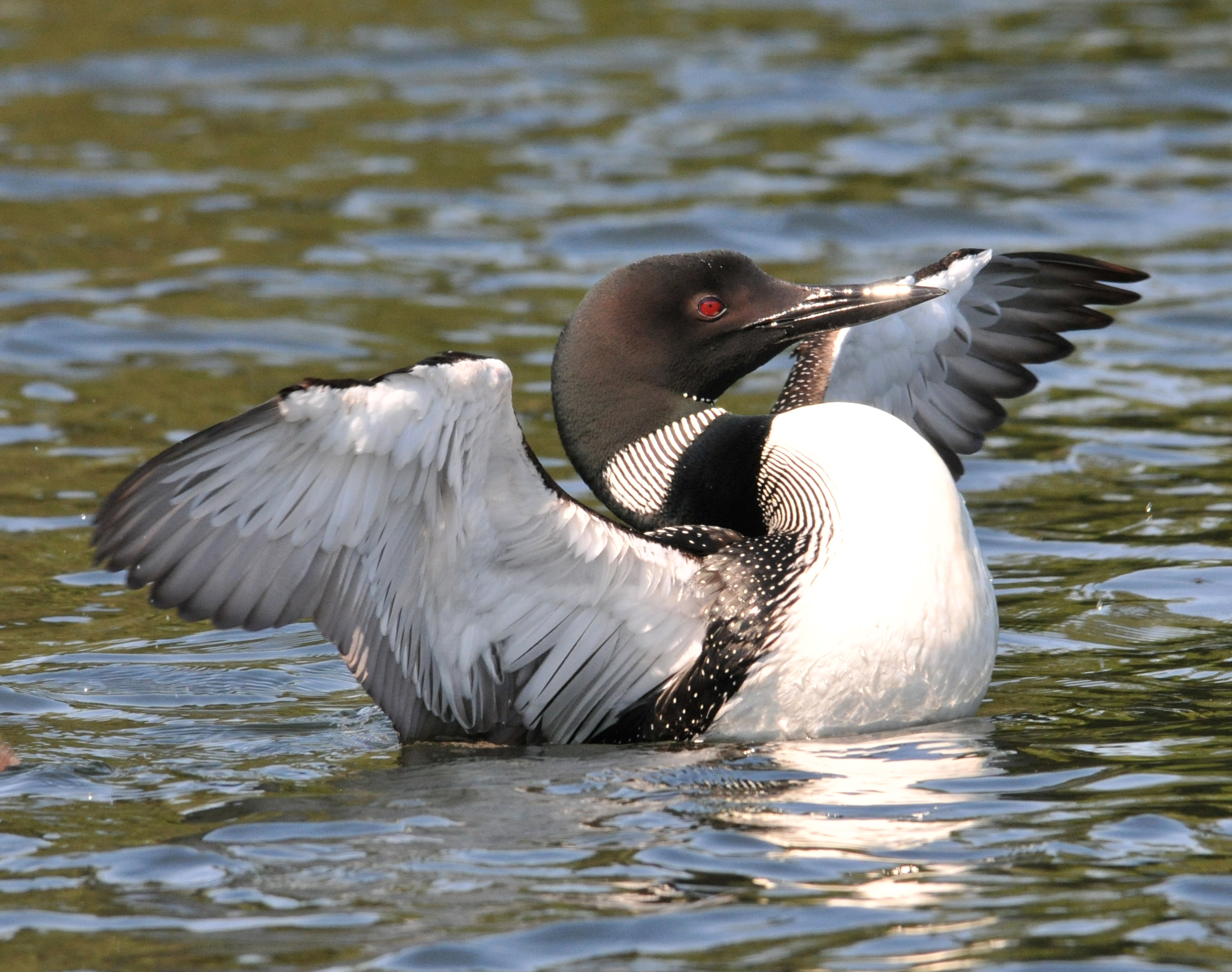 Photo: Loon Stretch (Common Loon). Photo Credit: Amy Widenhofer, 2012 Photo Contest - 1st Place Wildlife Category